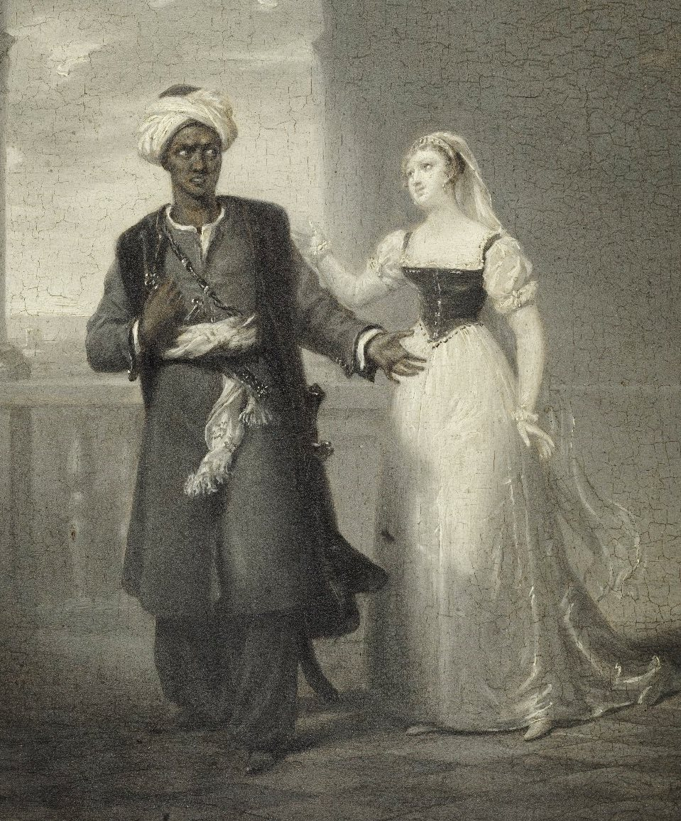 From Act III, Scene 4 of William Shakespeare's Othello